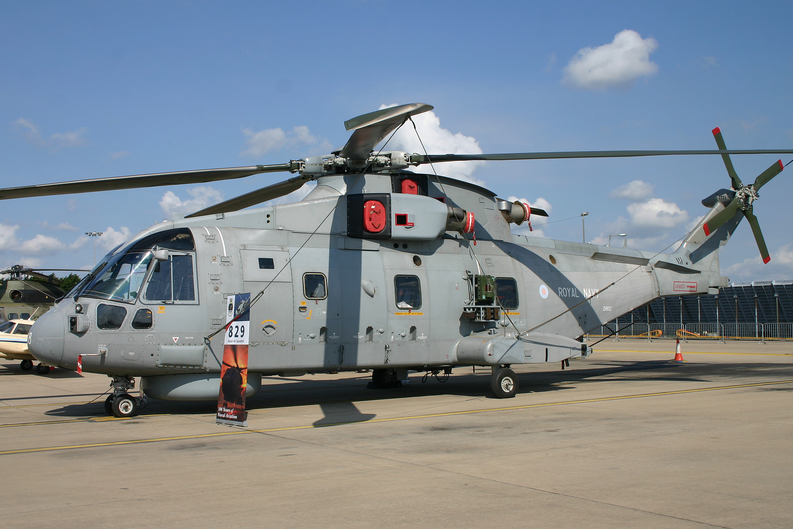 From 829sqn based at RNAS Culdrose. c/n 50131, l/n RN32. On static display at the 2011 Waddington Airshow. 02-07-2011